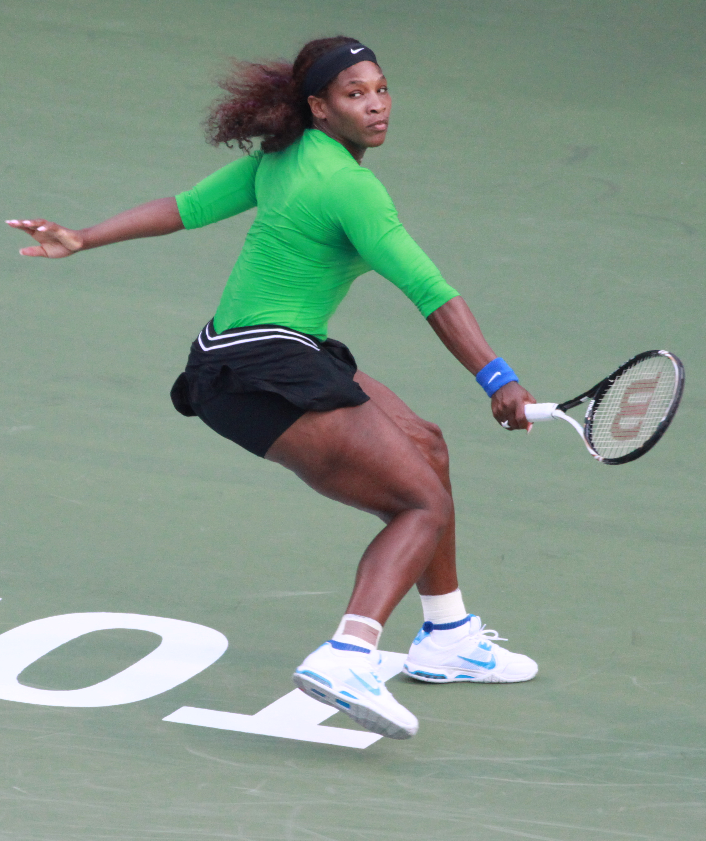 Rogers Cup 2011 Semifinal 2 Serena Williams vs Victoria Azarenka